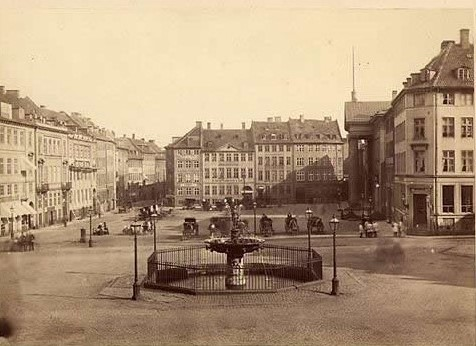 The Caritas Fountain as it looked before the current design was inolemented in Copenahgen, Denmark